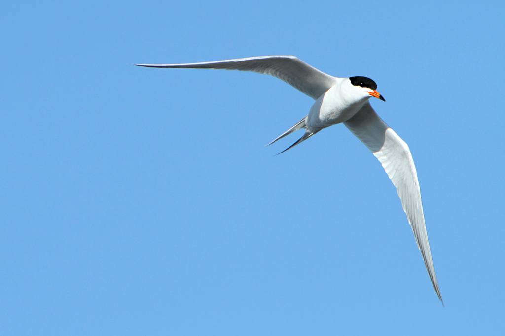 Observed near tule Lake, California